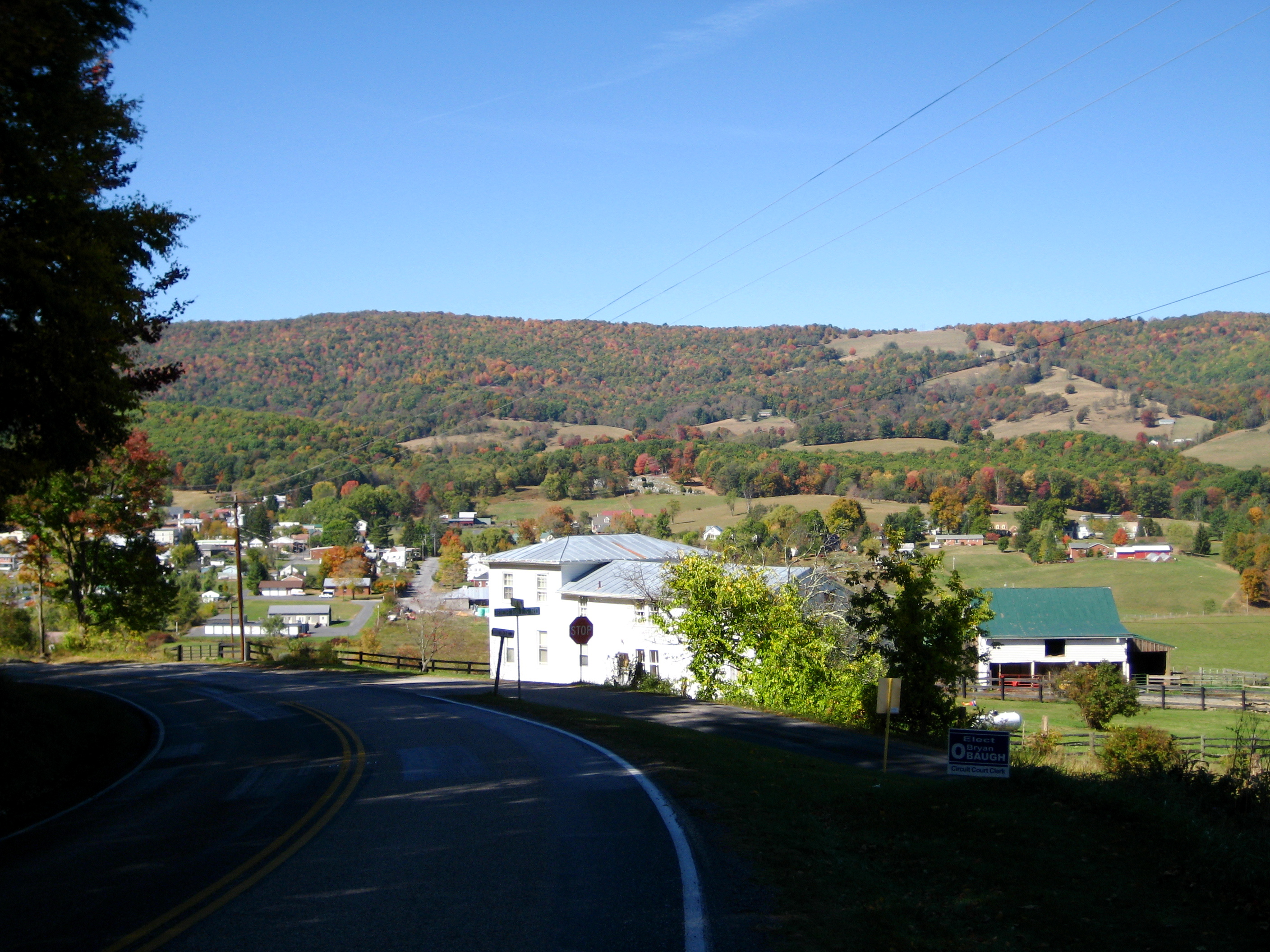 This town (home of the only traffic light in Highland County) is also the start and finish for the Mountain Mama Road Bike Challenge. On this ride, we scaled many of the climbs in reverse.